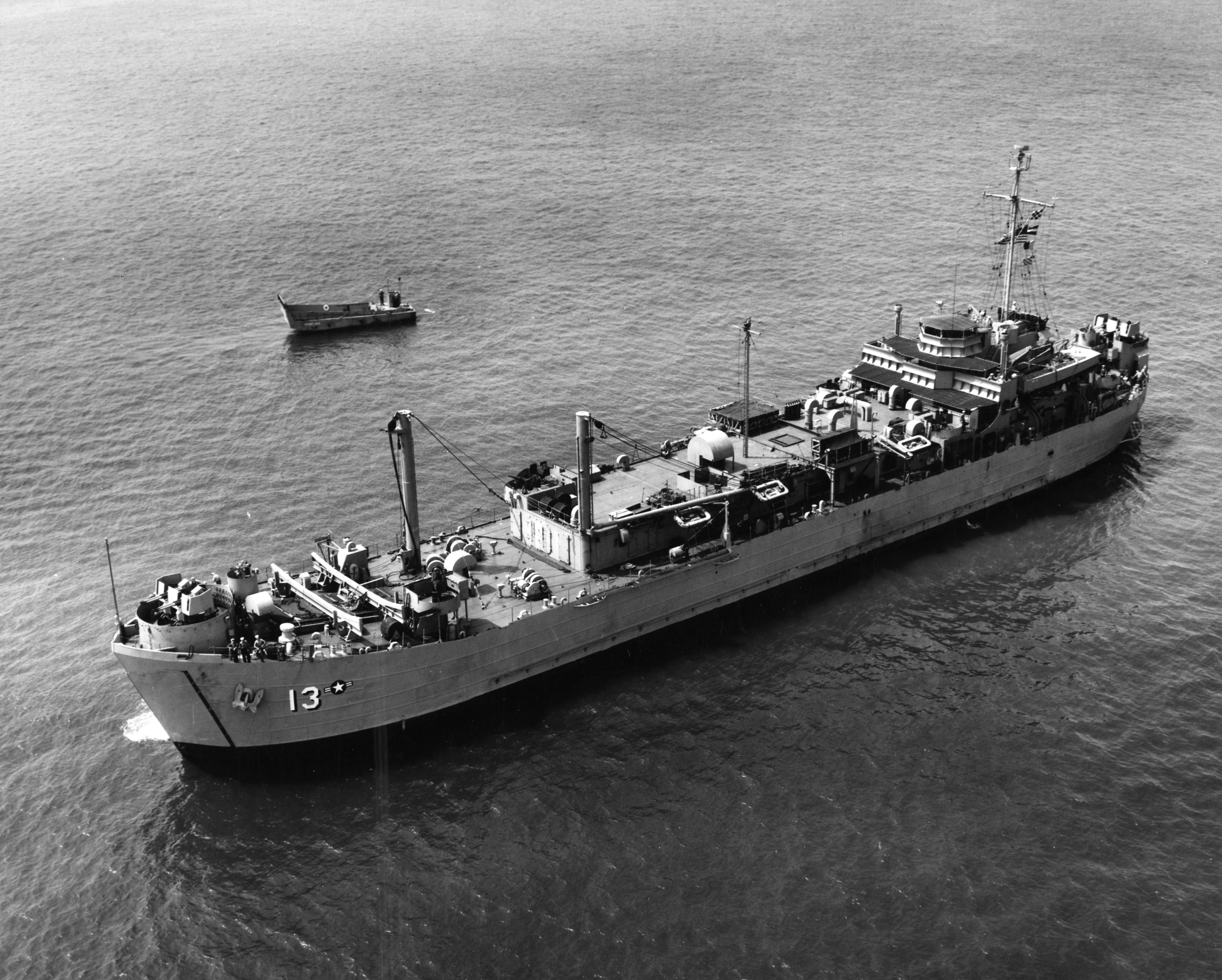 The U.S. Navy landing craft repair ship USS Menelaus (ARL-13) off Norfolk, Virginia (USA), on 31 July 1951.